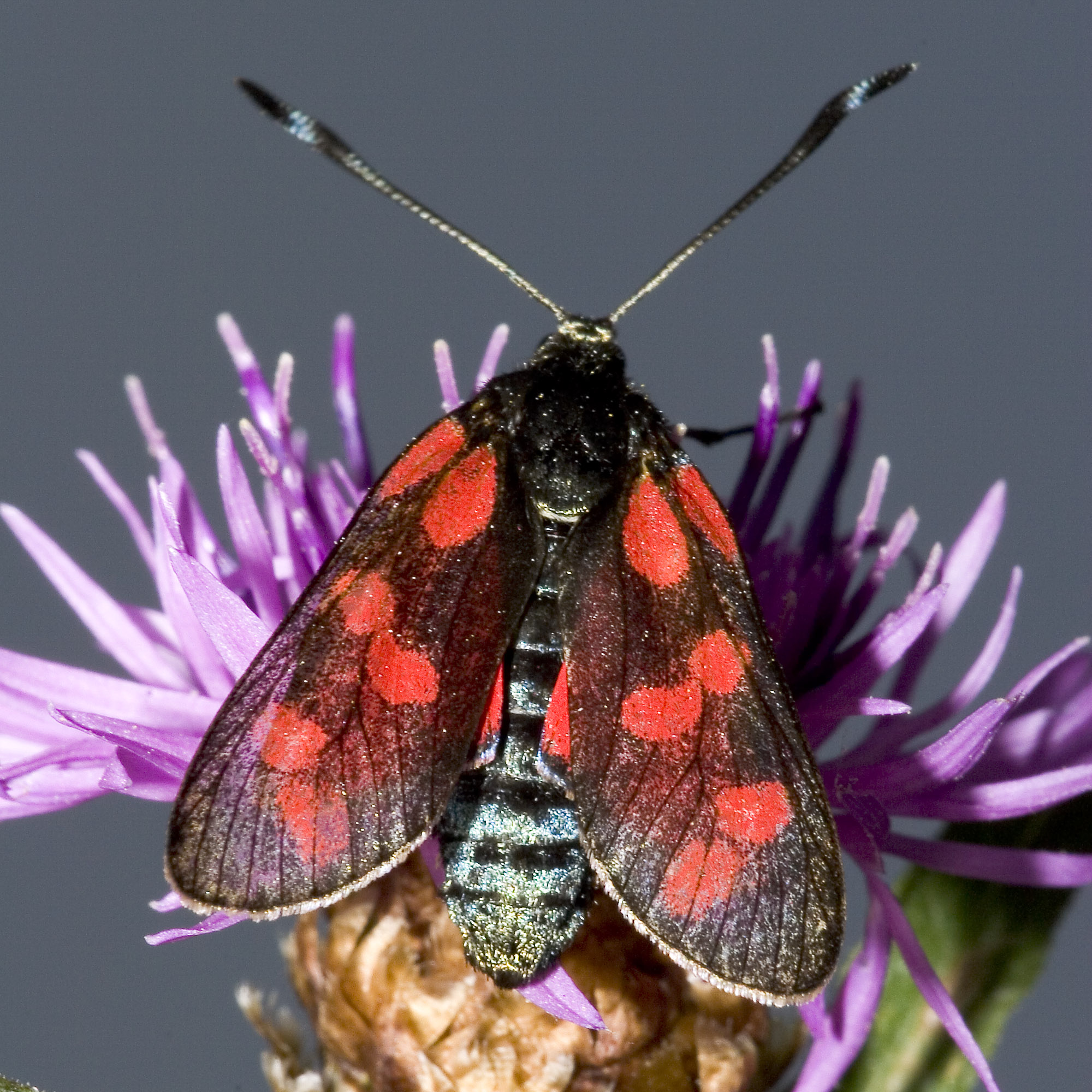 Six-spot Burnet, Zygaena filipendulae (Linnaeus, 1758)